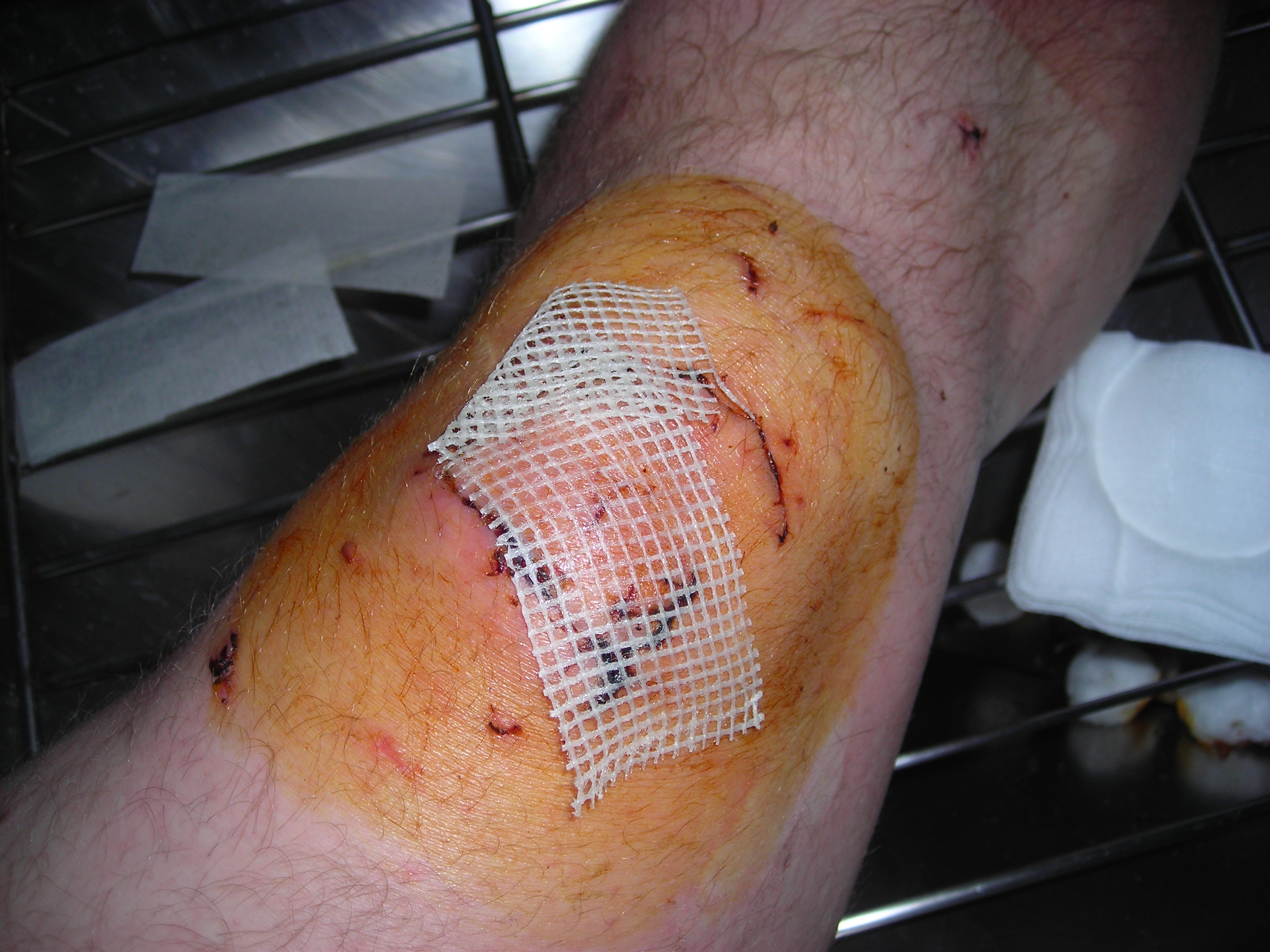 antiseptic gauze laid ontop of a wound.